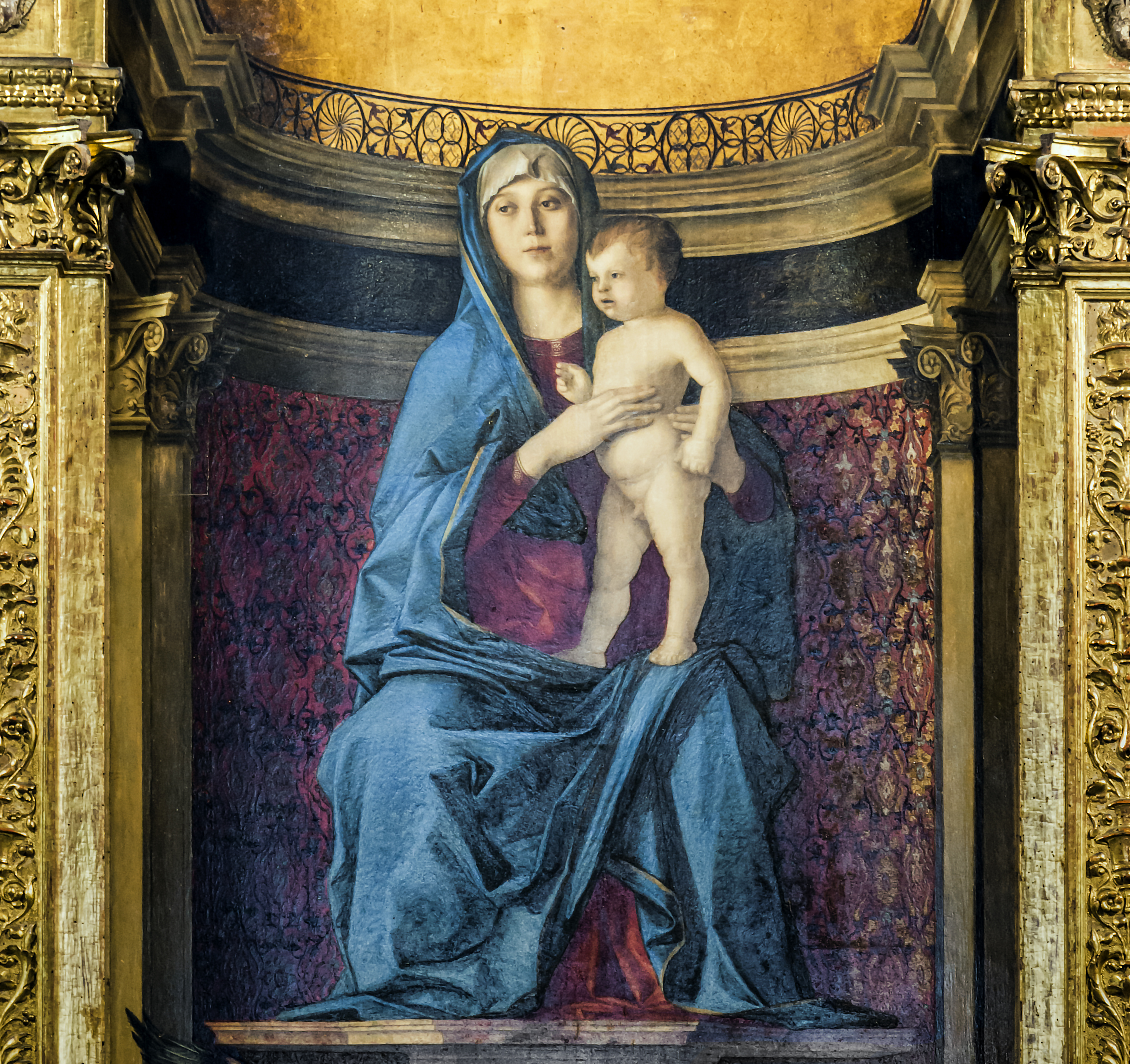 Santa Maria Gloriosa dei Frari, Sacristy - Triptych Madonna and Child by Giovanni Bellini. Central picture. Oil on panel 1488.